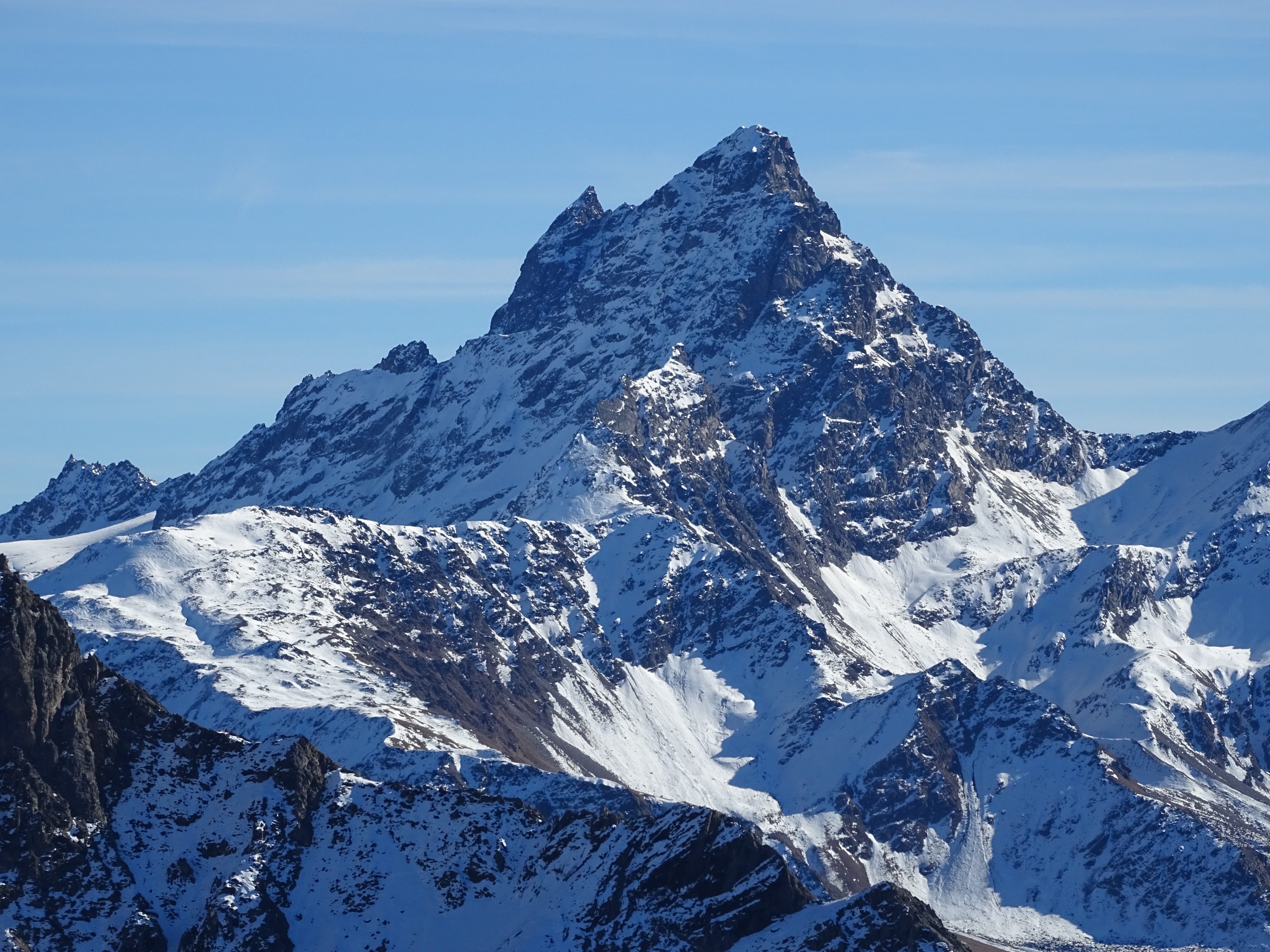 Piz Kesch, picture taken from Büelenhorn (Davos / Bergün/Bravuogn, Grison, Switzerland)